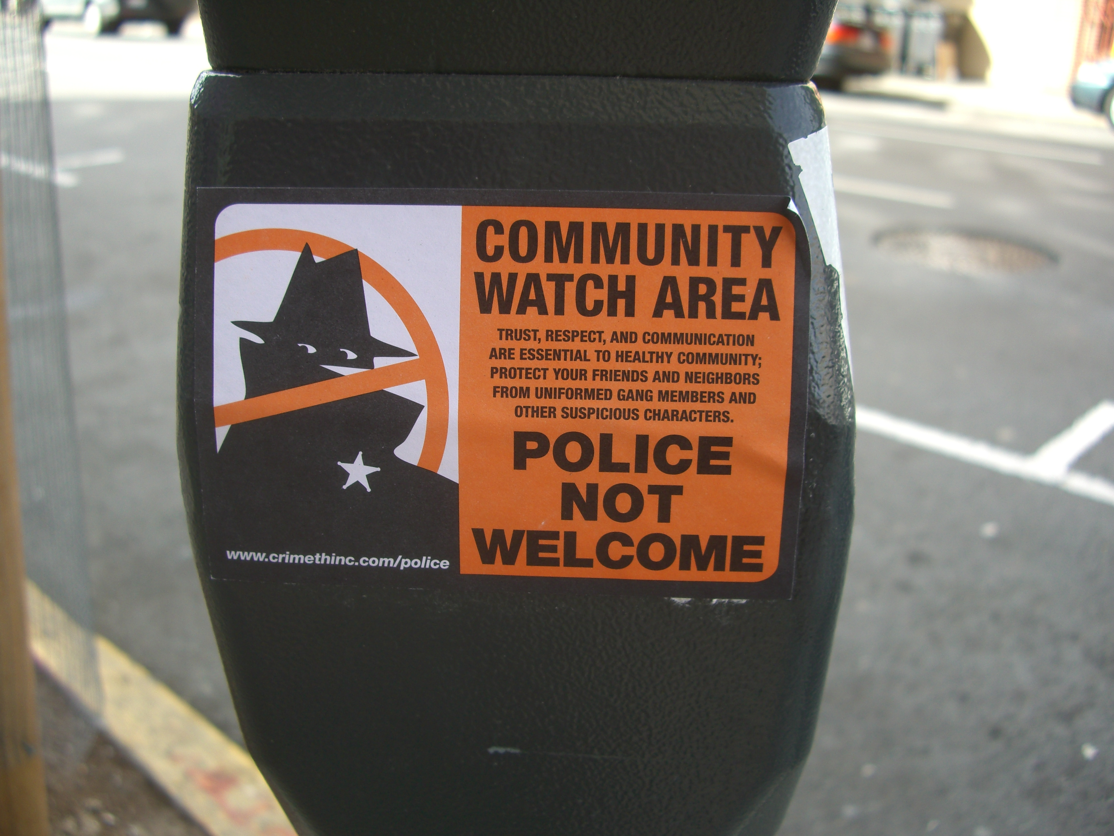 A CrimethInc. sticker reading "Police Not Welcome"